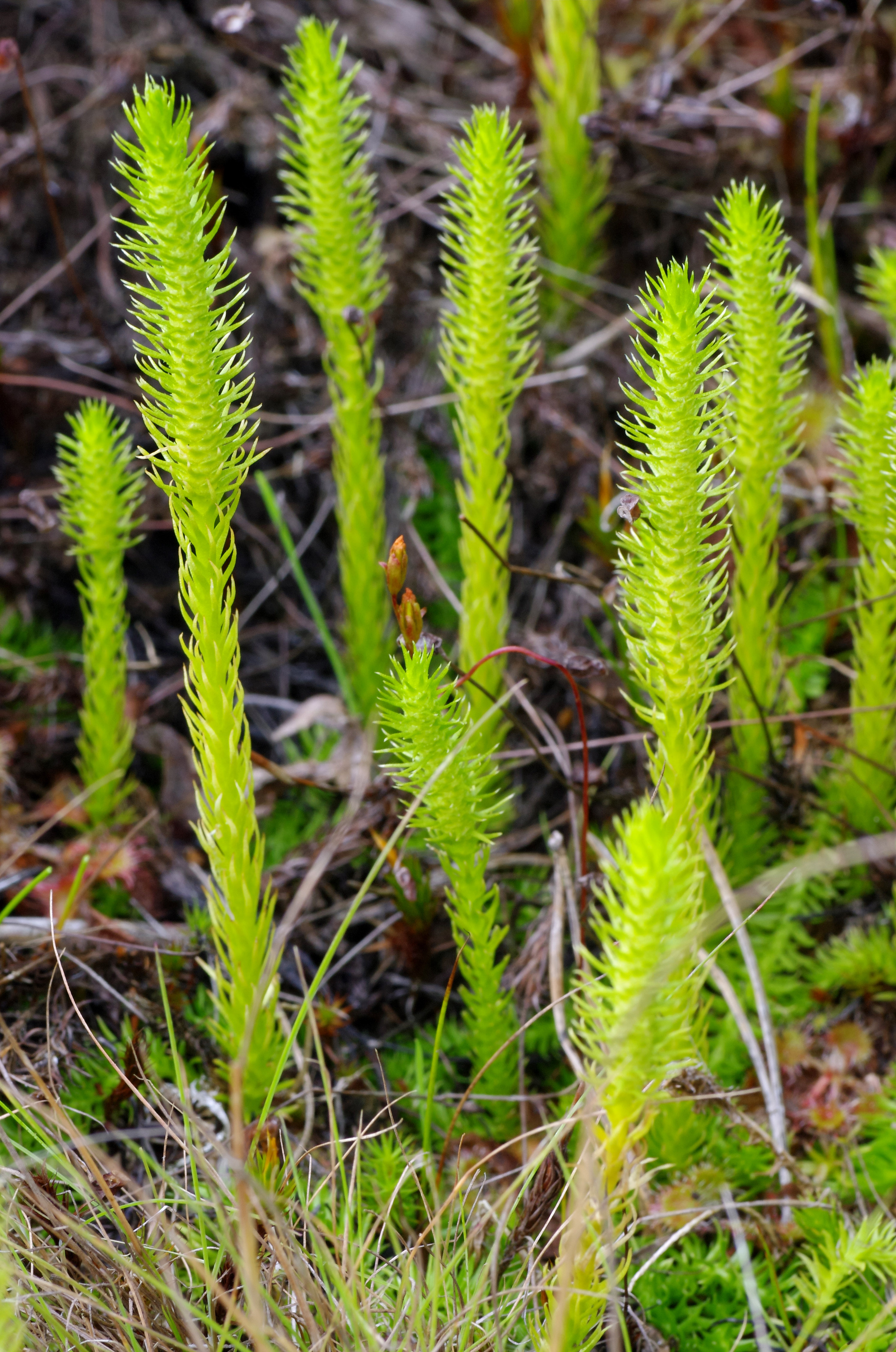 The Marsh Clubmoss, Lycopodiella inundata, with sporophylls.